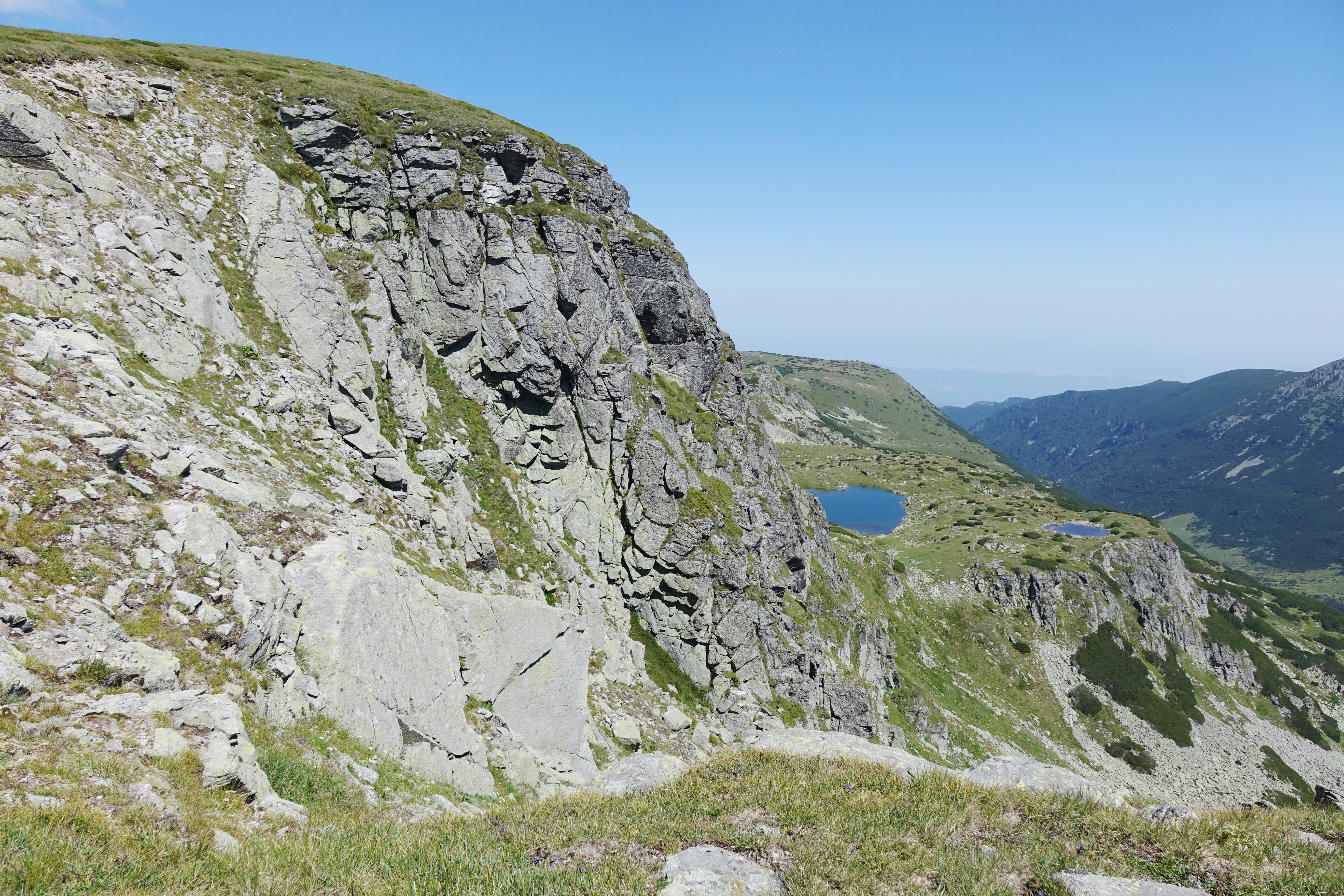 Ibar Lake under the Ibar Peak, Rila mountain